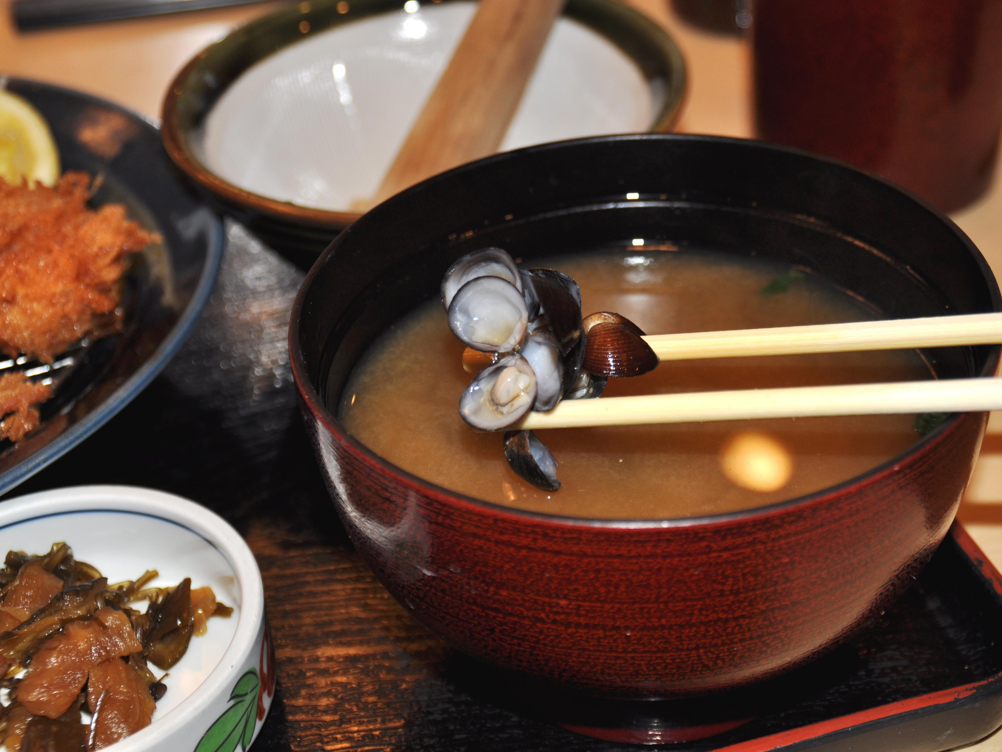 Miso soup of the black clams (Villorita cyprinoides (Gray, 1825) from India) in a Japanese restaurant in Tokyo.